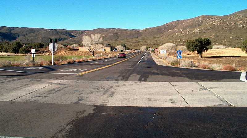 Photograph taken by Philip Erdelsky and released into the public domain.